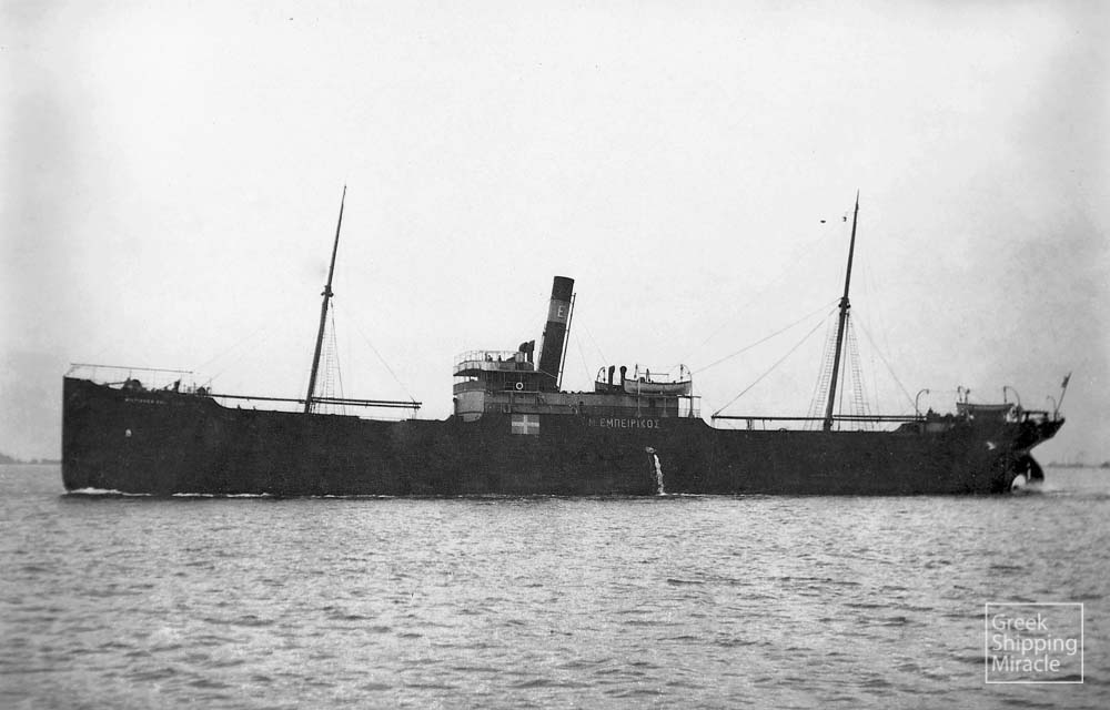 Greek steamship «MILTIADES EMBIRICOS». Sunk by German submarine July 1, 1917